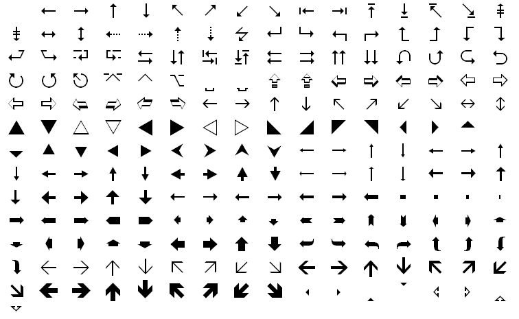 Wingdings 3 character mosaic. Picture made by User:Monedula